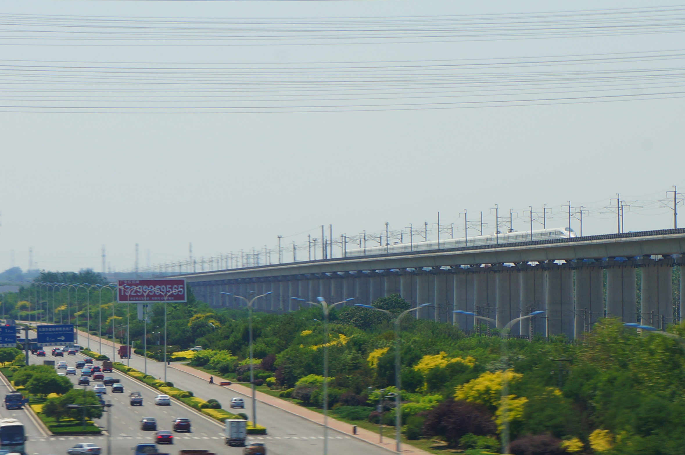 201606 CRH380AL at Tianjin–Baoding Railway